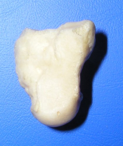 os capitatum, ant. view (palmar), l. sin (left hand)